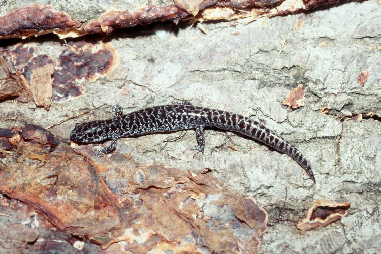 Flatwoods salamander (Ambystoma cingulatum)